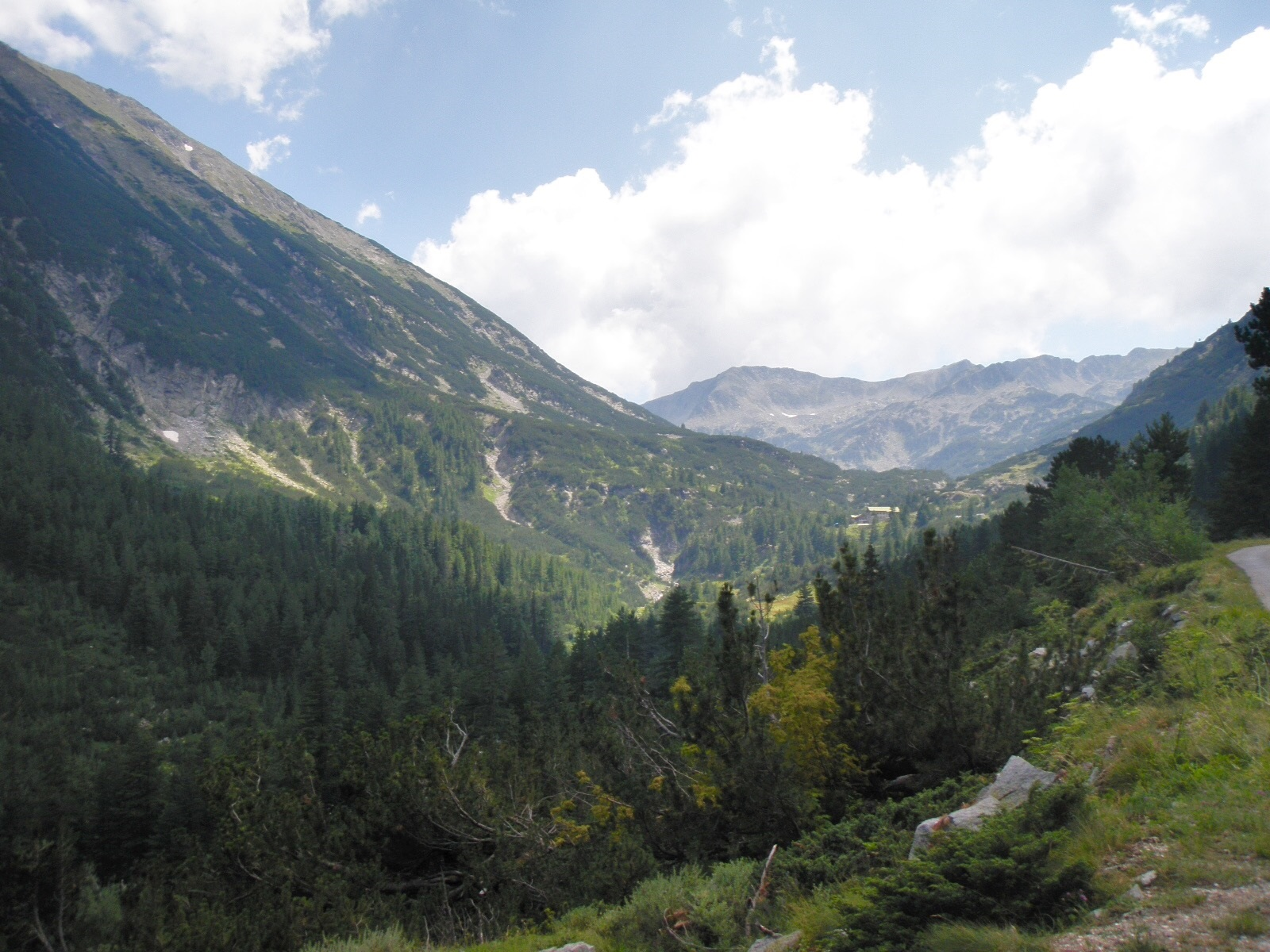 Pirin National Park, Pirin Mountain